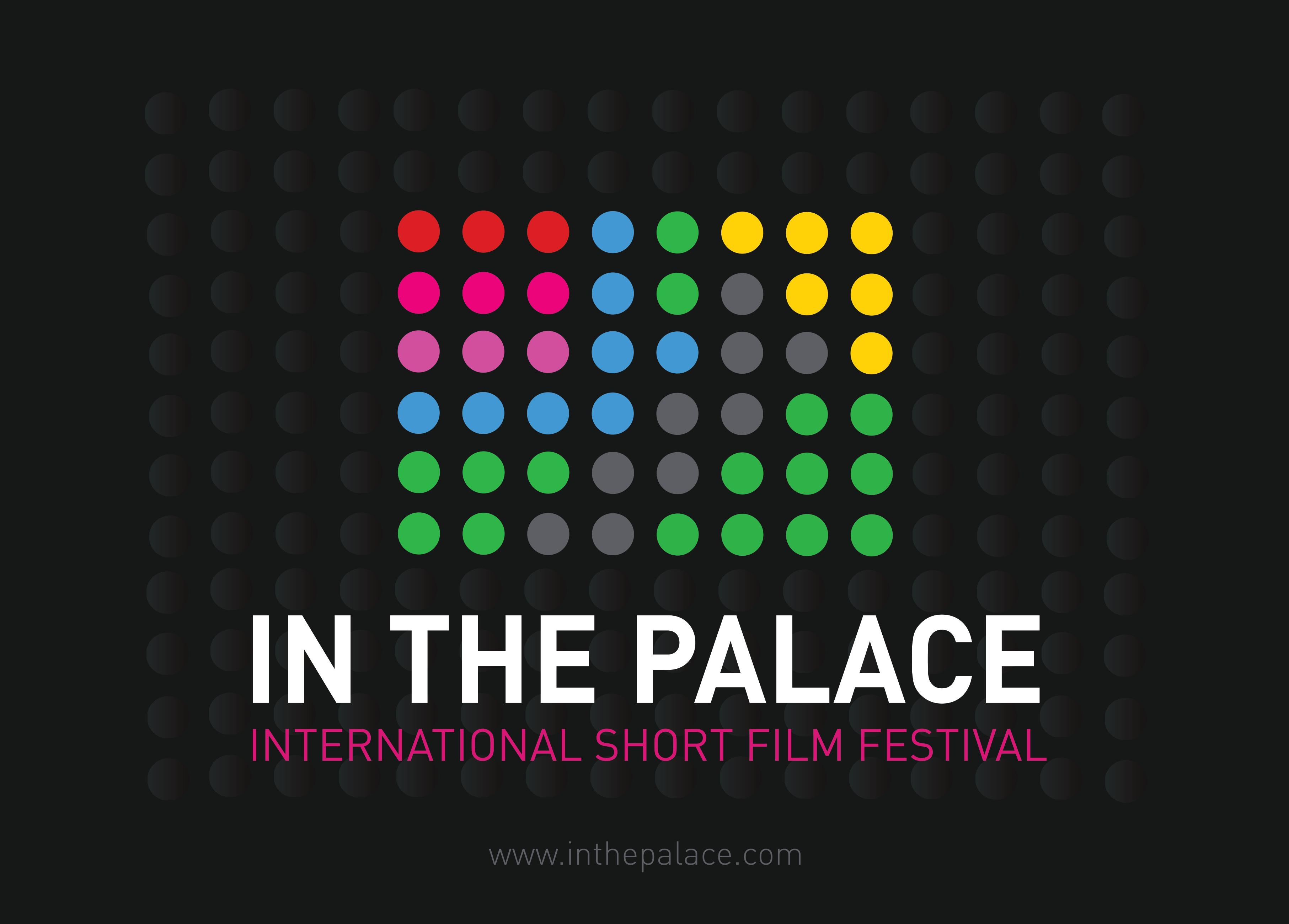 Logo ISFF